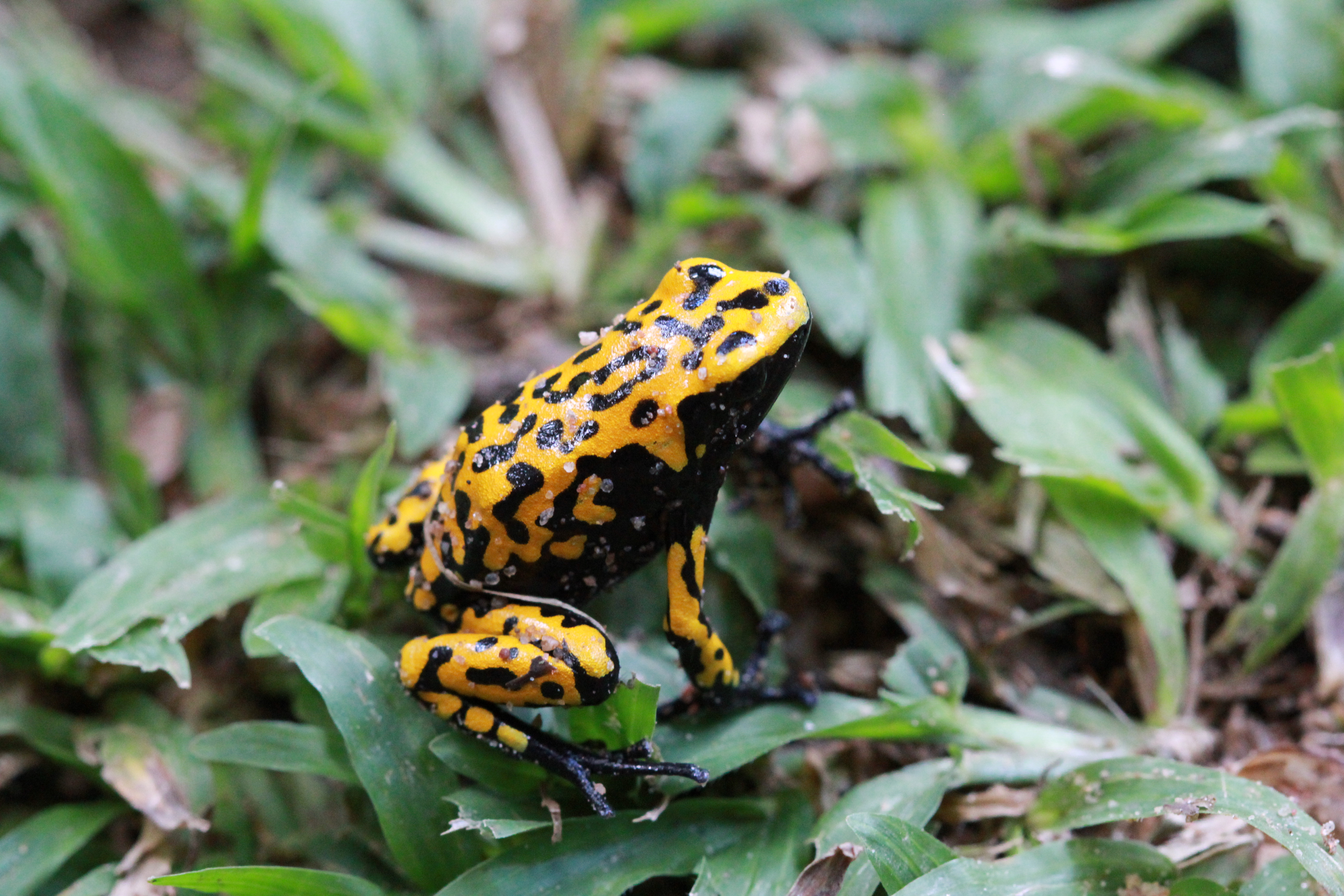 Adelphobates galactonotus -- this variant was discovered in 2009 in Cristalino State Park, Mato Grosso, Brazil